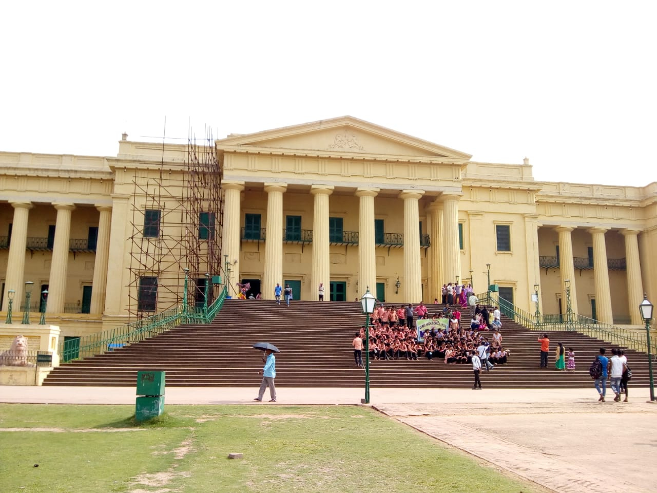 The Hazarduari Palace, which now houses a spectacular meuseum.